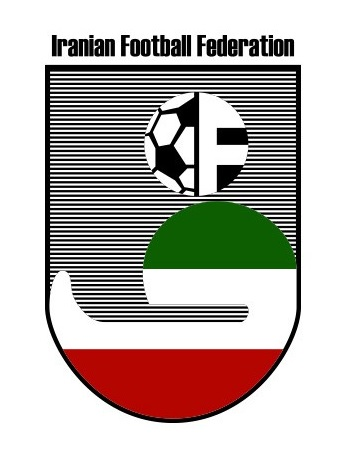 The logo of Football Federation of Iran and the jersey badge of Iran national football team (Team Melli) in FIFA World Cup 1978 Argentina